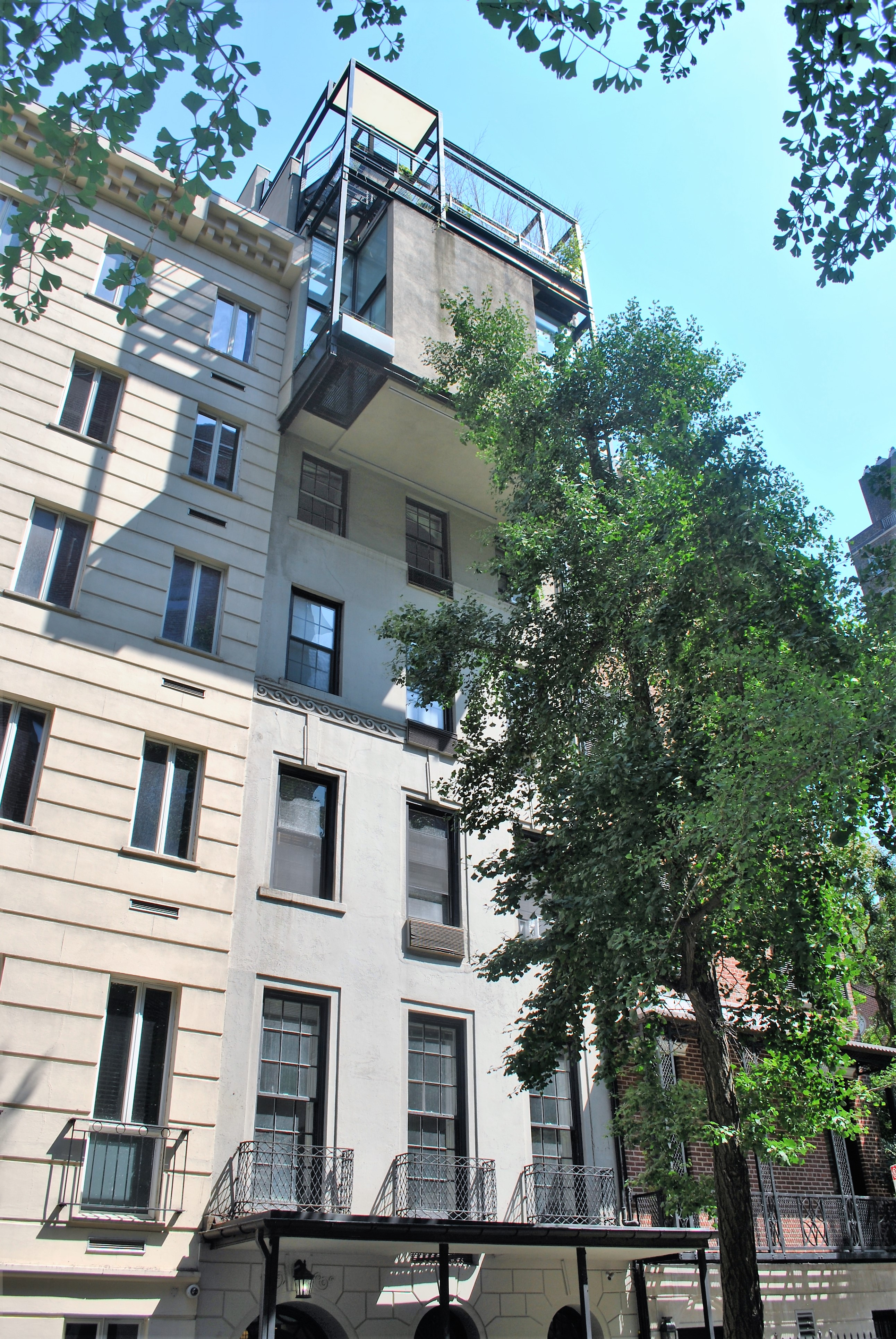 Image originally published in Queer Places: Retracing the Steps of LGBTQ people around the World Authored by Elisa Rolle